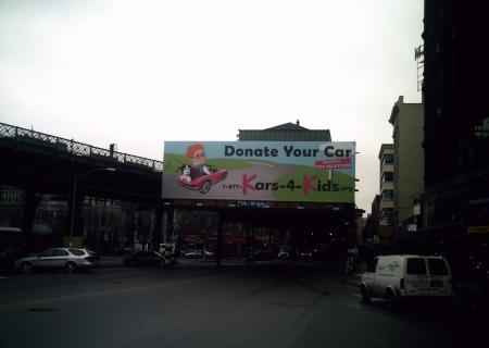 Remains of the Broadway Ferry spur just west of Marcy Avenue towards the Williamsburg Bridge